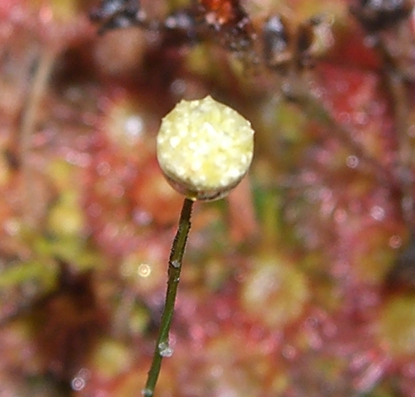 Drosera kaieteurensis